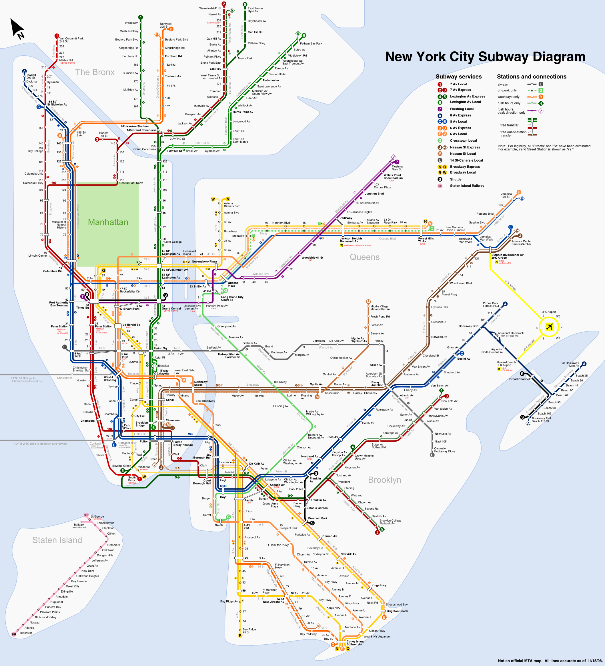 A map of the New York City Subway, tweaked for geographical accuracy